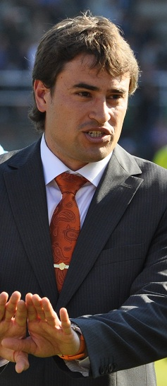 Josep Clotet Ruiz